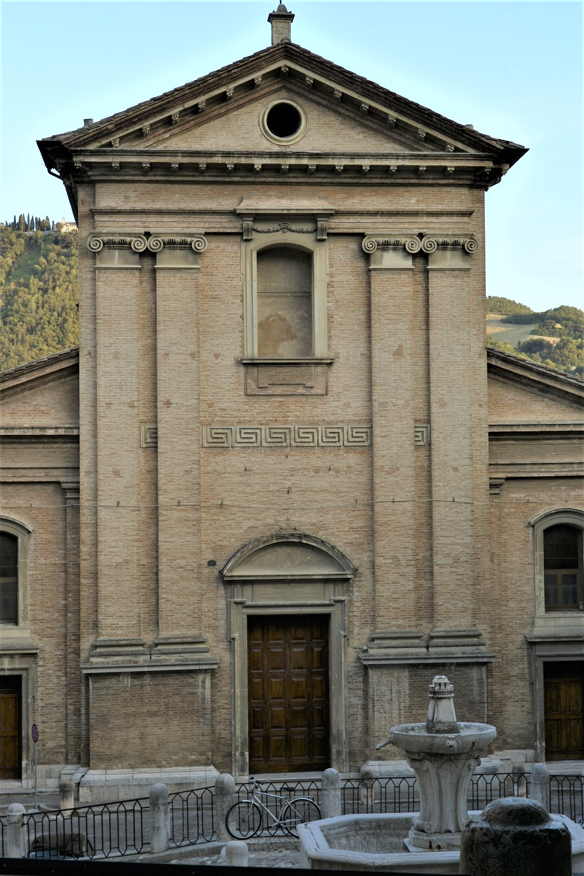 Main facade of the Fossombrone Cathedral.